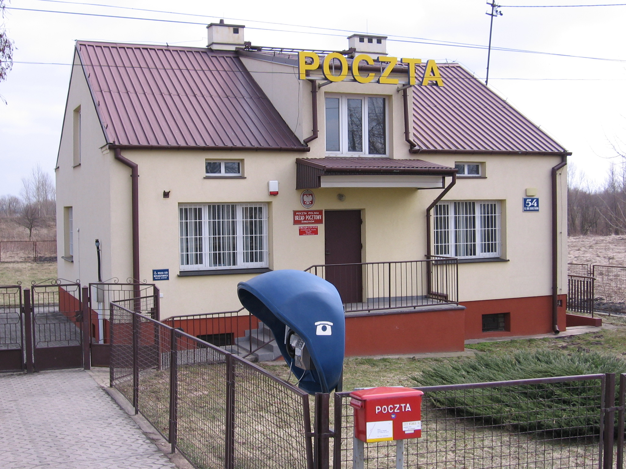 post office in Dobrzyków